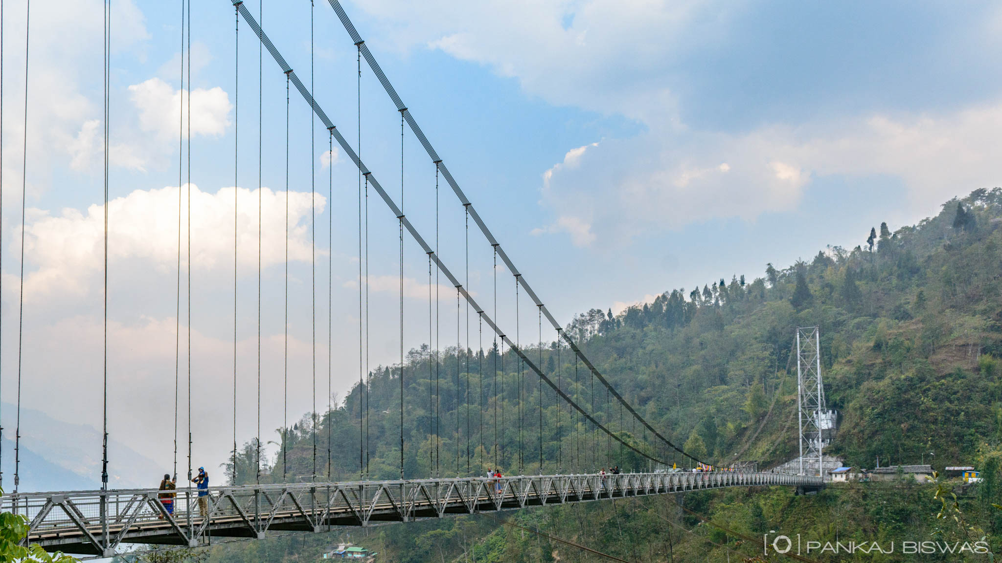 A view of the Singshore Bridge from the other side of Pelling, Sikkim